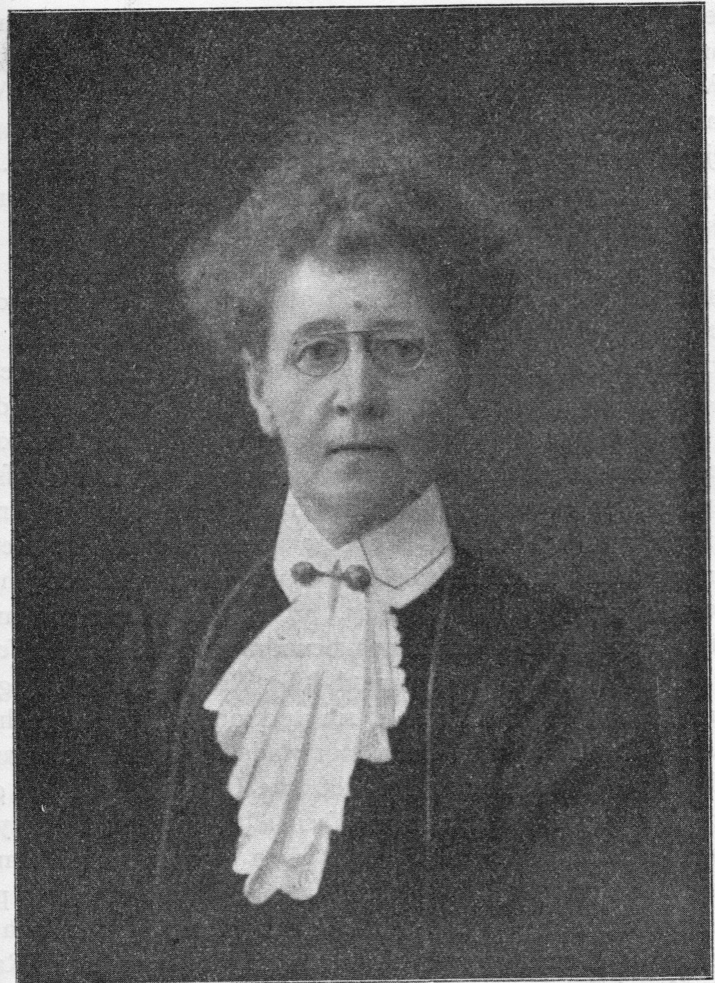 Portrait of the Finnish genealogist and author Jully Ramsay (1865–1919), from her obituary in the Swedish magazine Personhistorisk tidskrift 1918–19, p. 165.